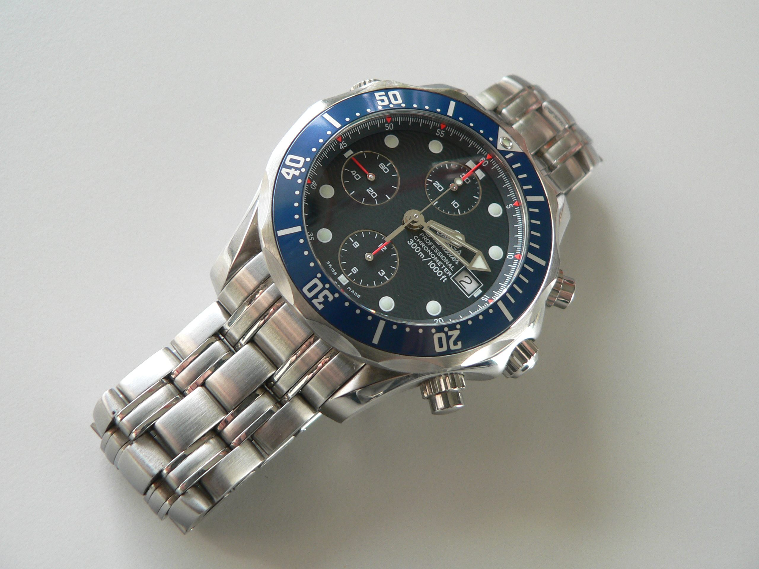 Omega Seamaster 300 M Chrono Diver (reference: 2225.80.00).